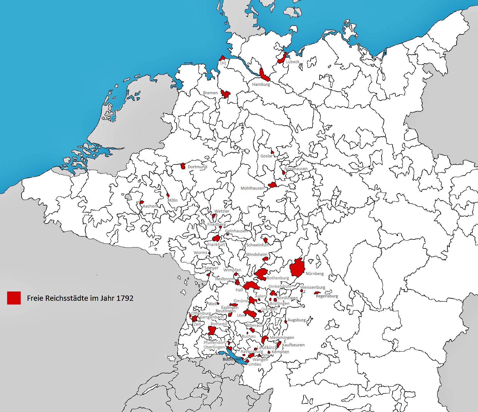 The Free Imperial Cities of the Holy Roman Empire in 1792. The map shows the 50 cities that took part in the assembly of the Imperial Diet that year, plus Buchau and Gelnhausen. Not shown are the many enclaves and exclaves, with the exception of Cuxhaven, the distant exclave of Hamburg located at the mouth of the Elbe River.